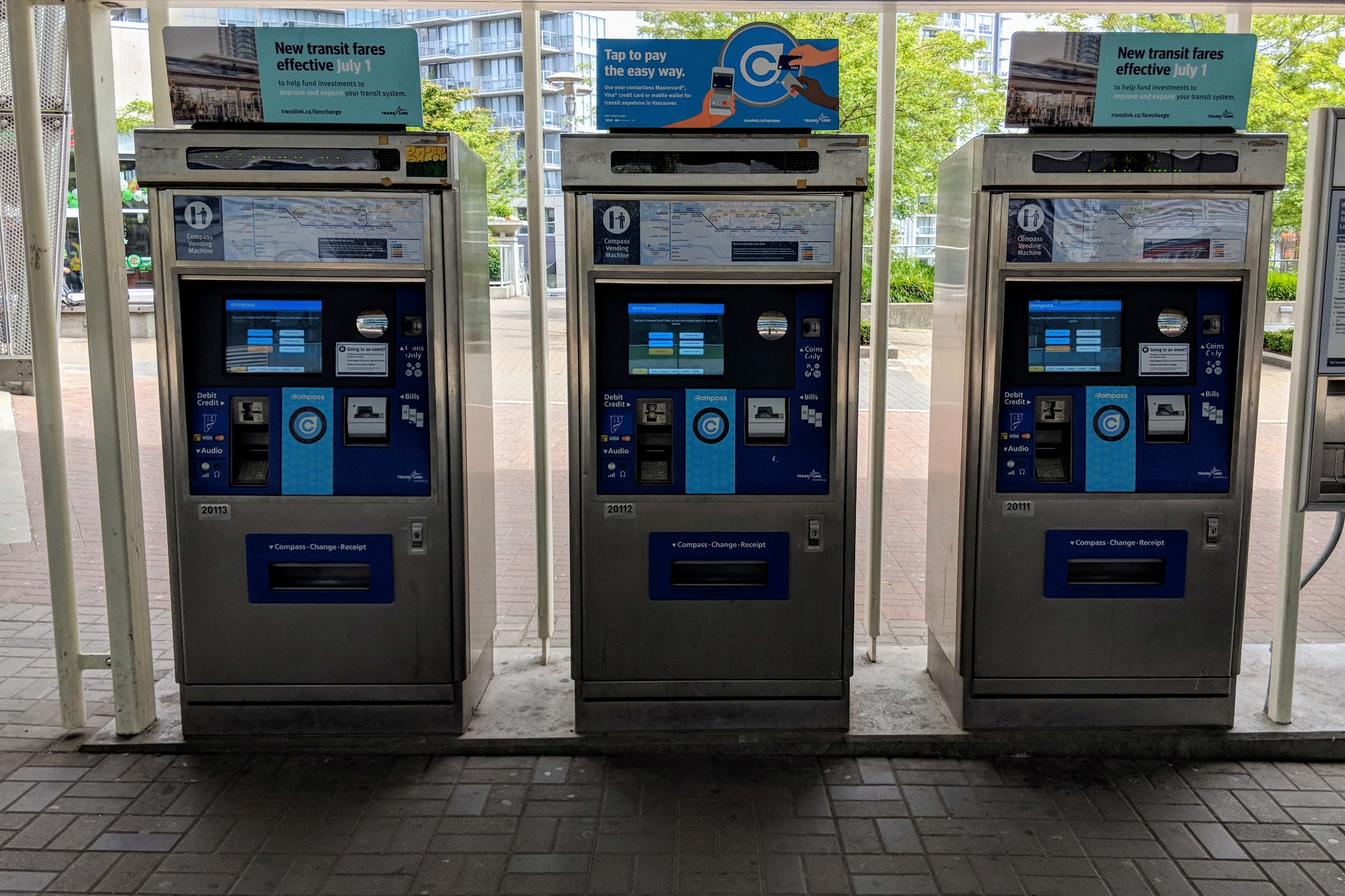 Compass vending machines at King George station in Surrey, British Columbia, Canada. June 2019.